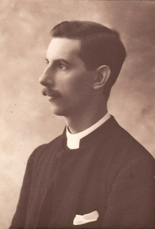 Rev. Fred Goodwill, 1900, by Felix S. Wecksler, South Parade, Bangalore